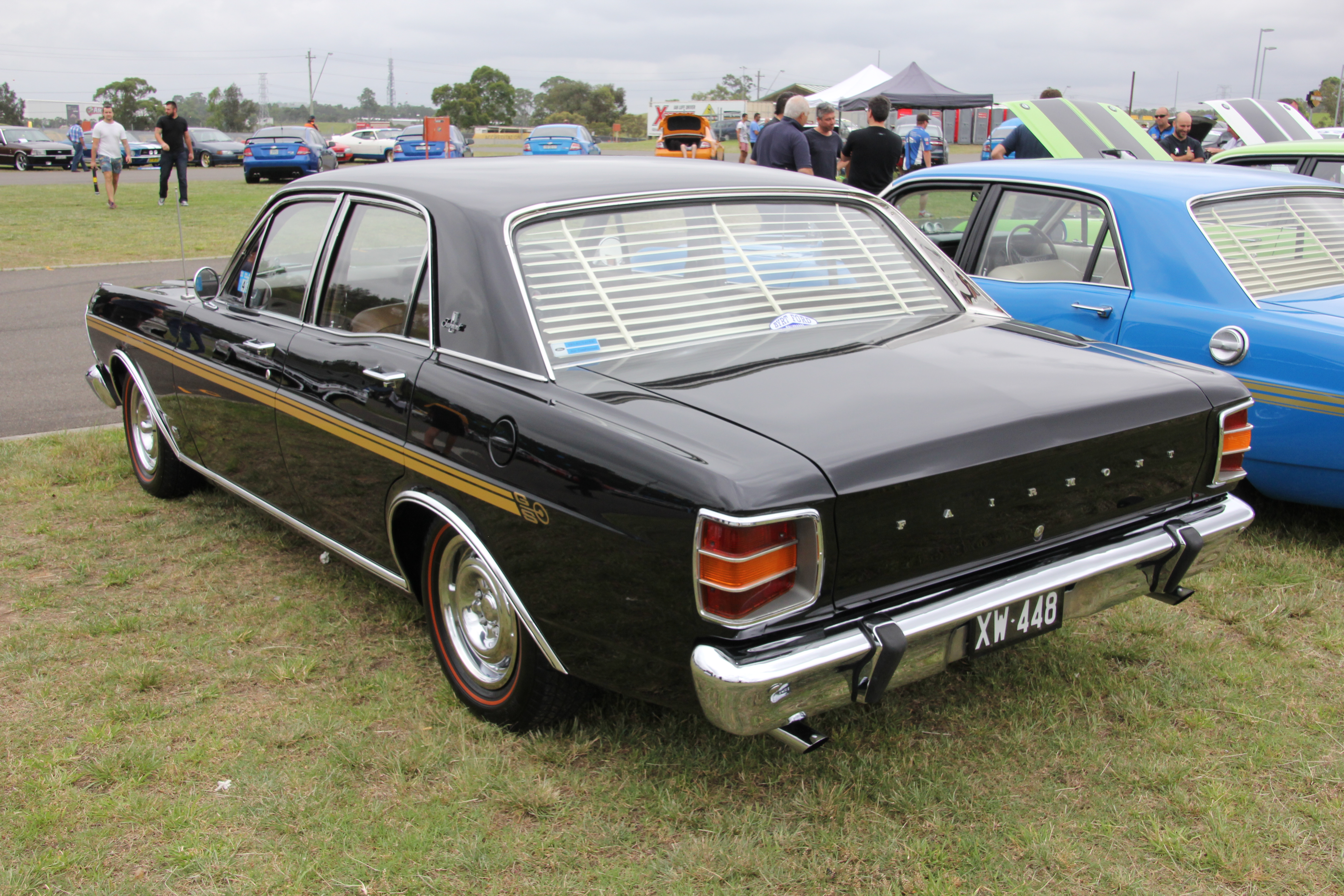 1970 Ford XW Fairmont GS sedan